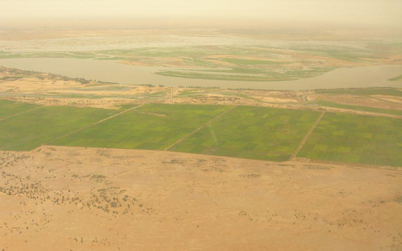 An aerial view of the Inland Niger Delta and surrounding farmlands, Mali